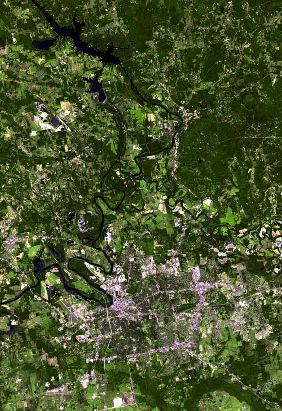 Satellite image of Montgomery, Alabama